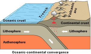 Plate tectonics diagram — showing convergence of an oceanic plate and a continental plate.